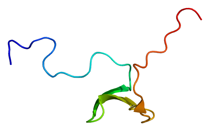 Structure of the APBB1 protein. Based on PyMOL rendering of PDB 2e45.